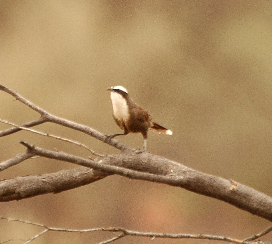 Hall's Babbler (Pomatostomus halli) Bowra, SW Queensland, Australia